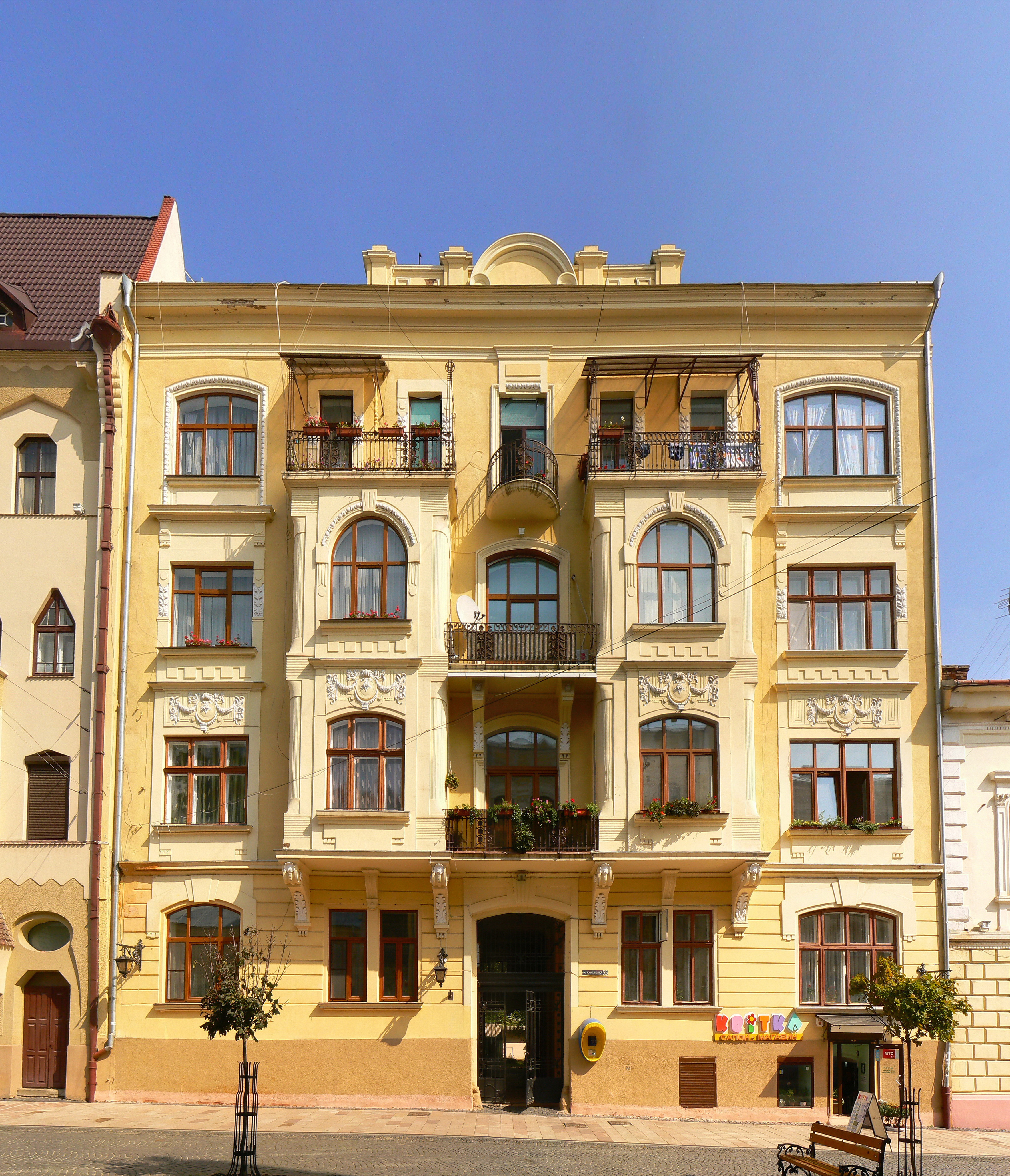 Кобилянської, 55